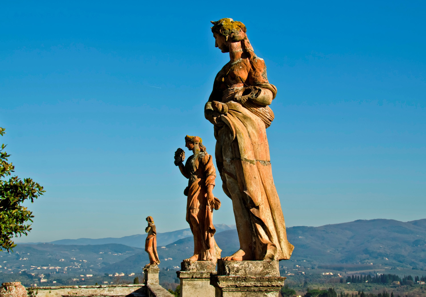 Terracota statues on the terrace of the Villa Corsini in Impruneta – Italy.